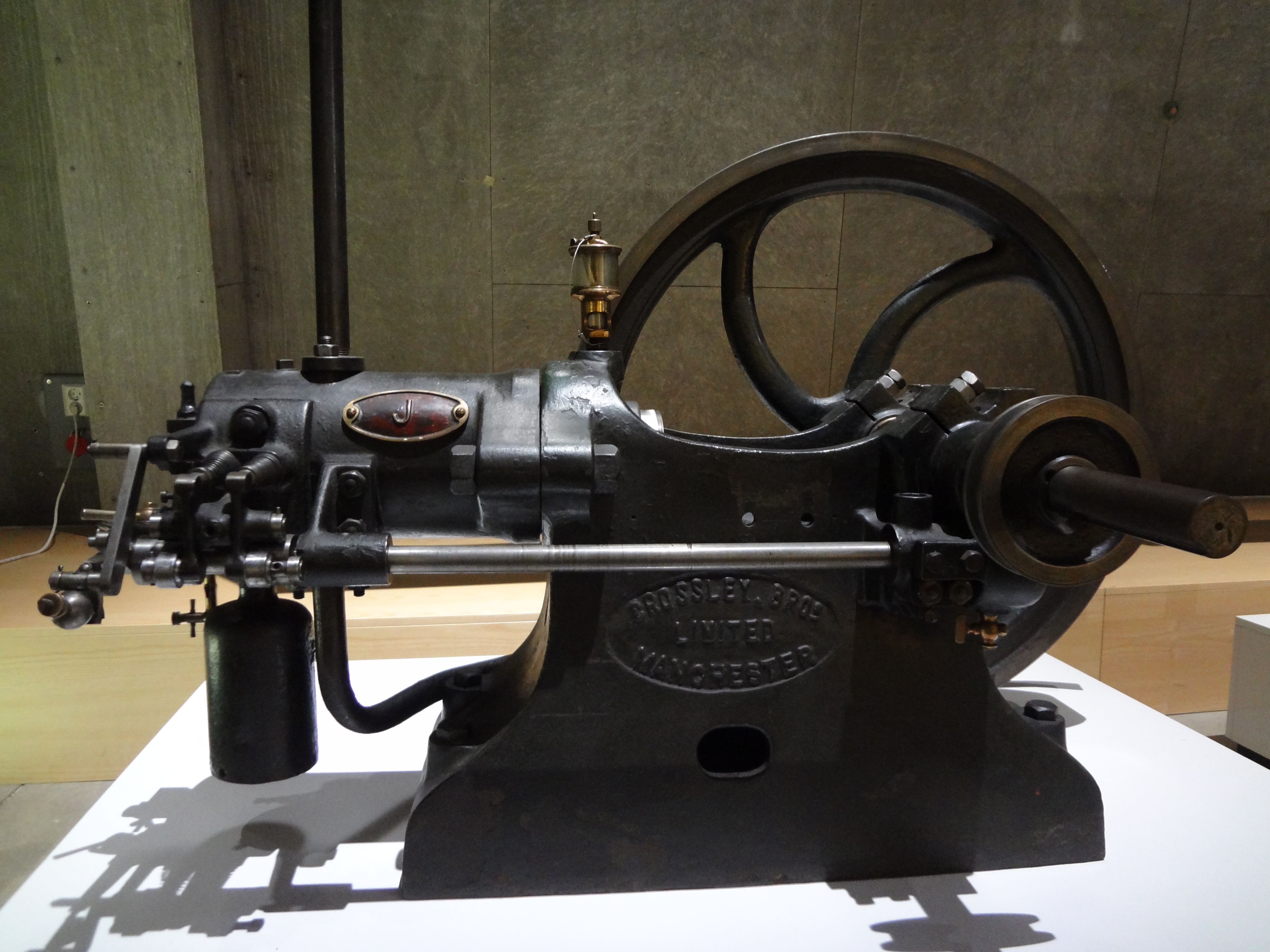 Coal gas engine, made by Crossley Brothers, Manchester, 1876-1910.